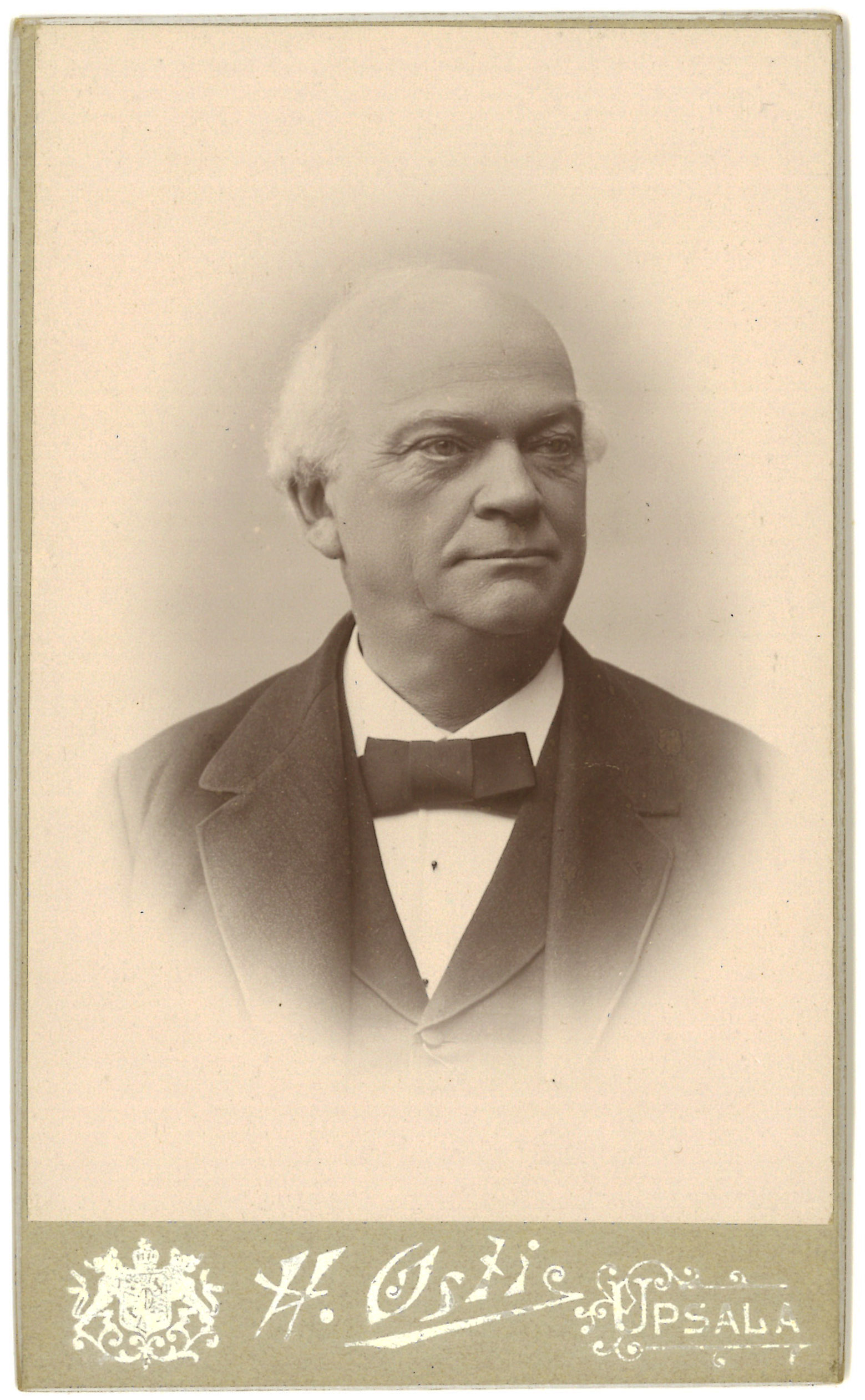 Carl Yngve Sahlin (1824-1917), Swedish philosopher and professor at the universities in Lund and Uppsala.